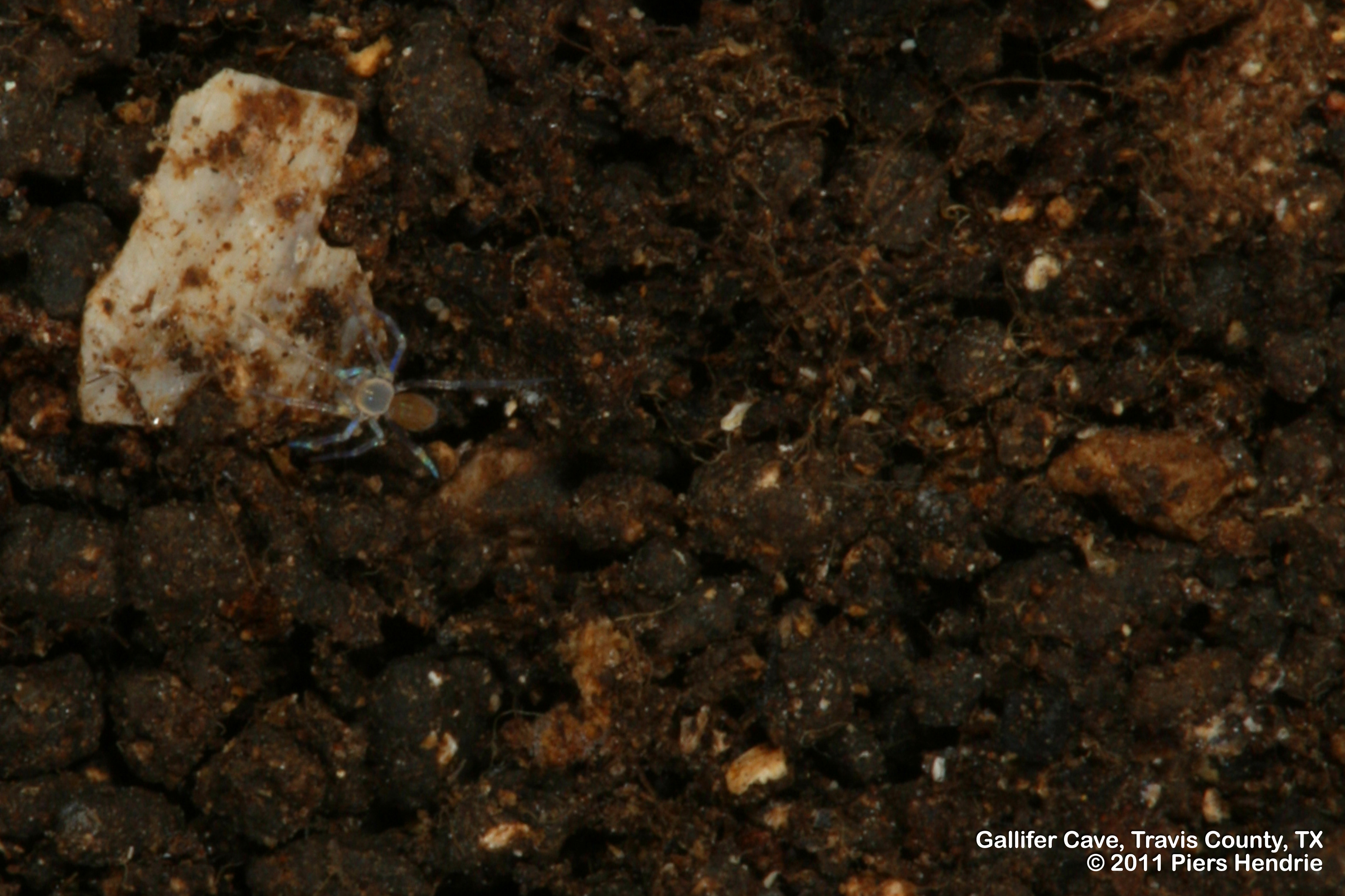 Tayshaneta myopica, or tooth cave spider